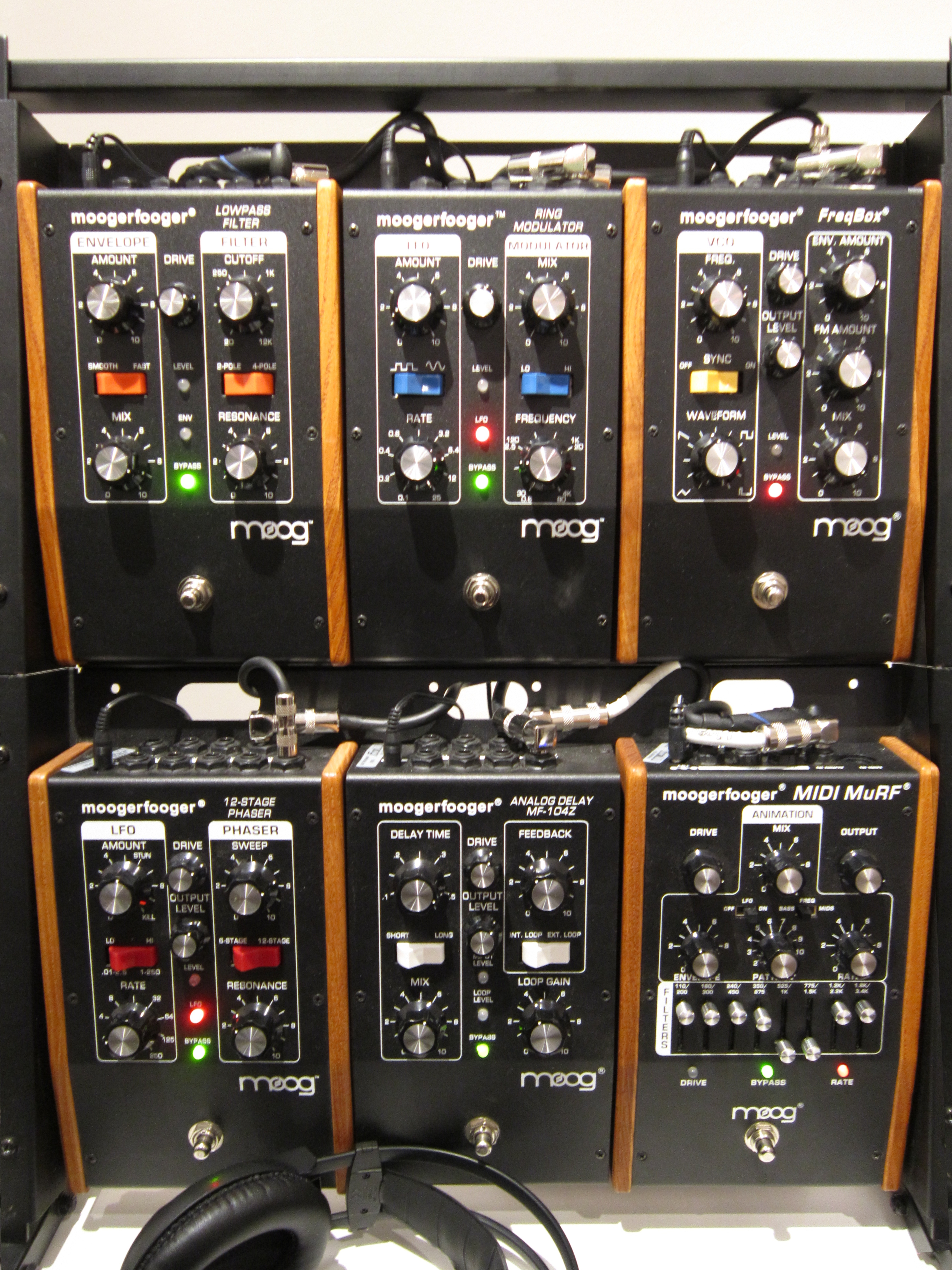 Moogerfooger pedals by Moog Music. From left to right, up to down: MF-101 Lowpassfilter MF-102 Ring modulator MF-107 Freq Box MF-103 analog twelve stage phaser MF-104Z analog delay MF-105M MIDI MuRF